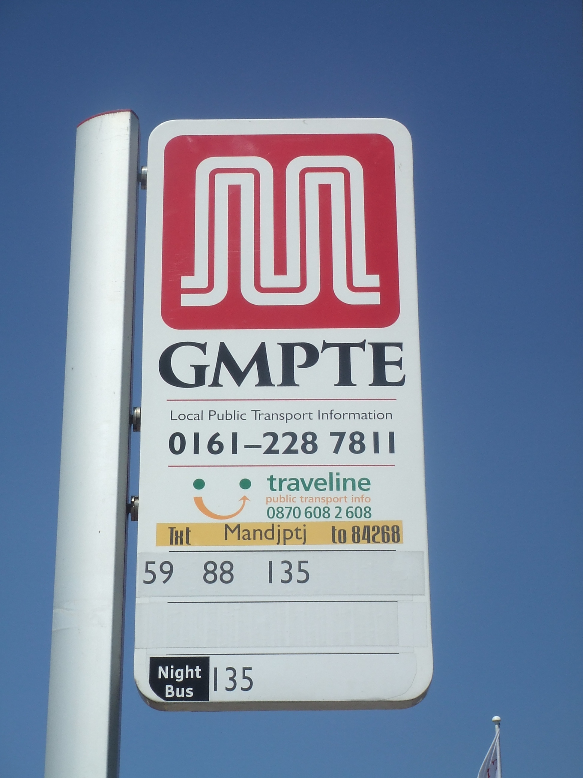 A Greater Manchester PTE bus stop sign in June 2006